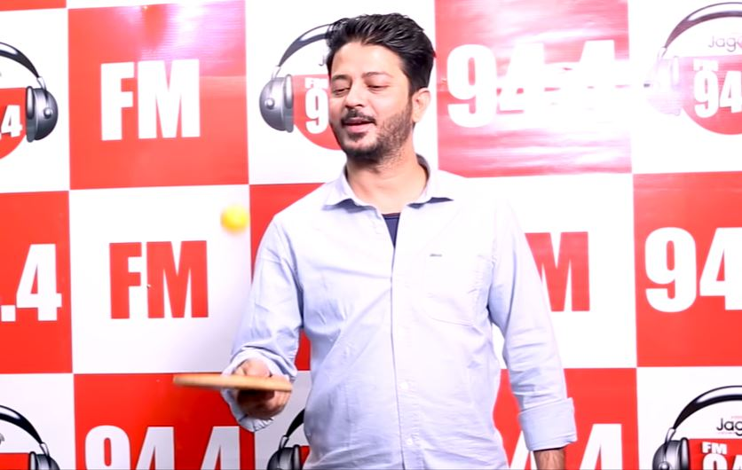 Kayes Arju